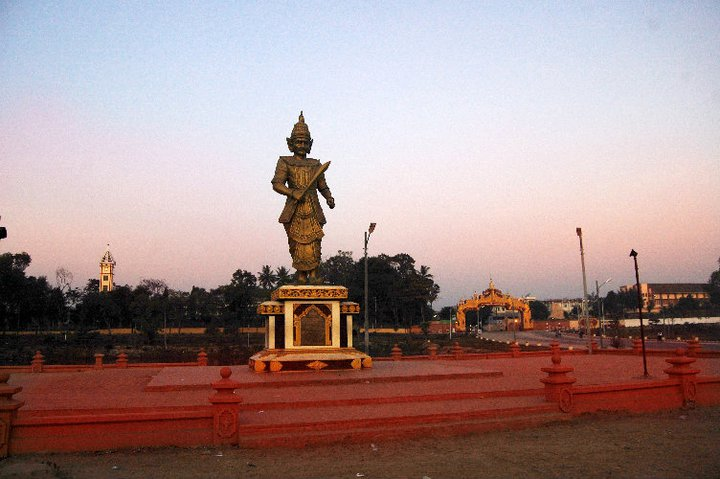 Bayintnaung image